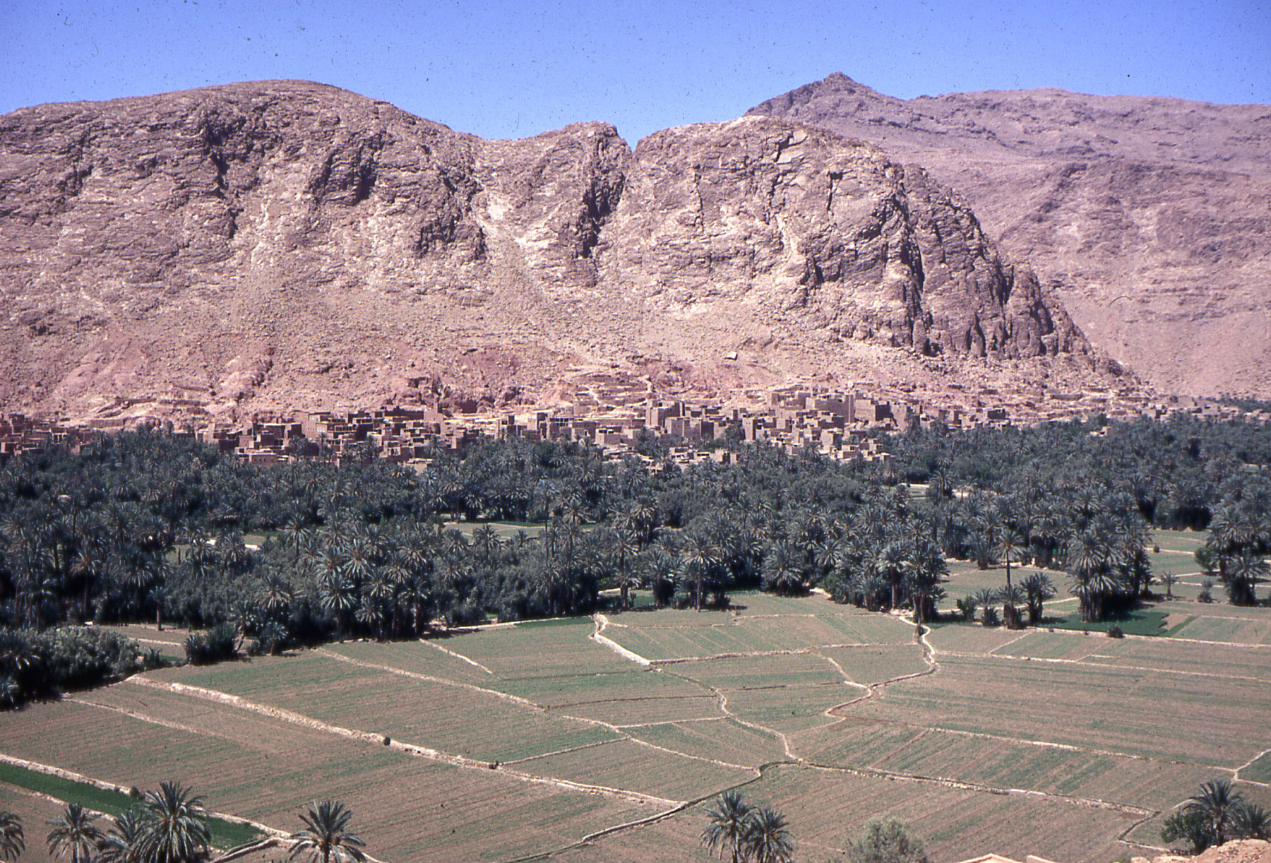 Tinherir palm-groves in Todra valley, southern Morocco. At bottom, the Haut-Atlas, or High Atlas mountain range, in front are fields and date palm trees.